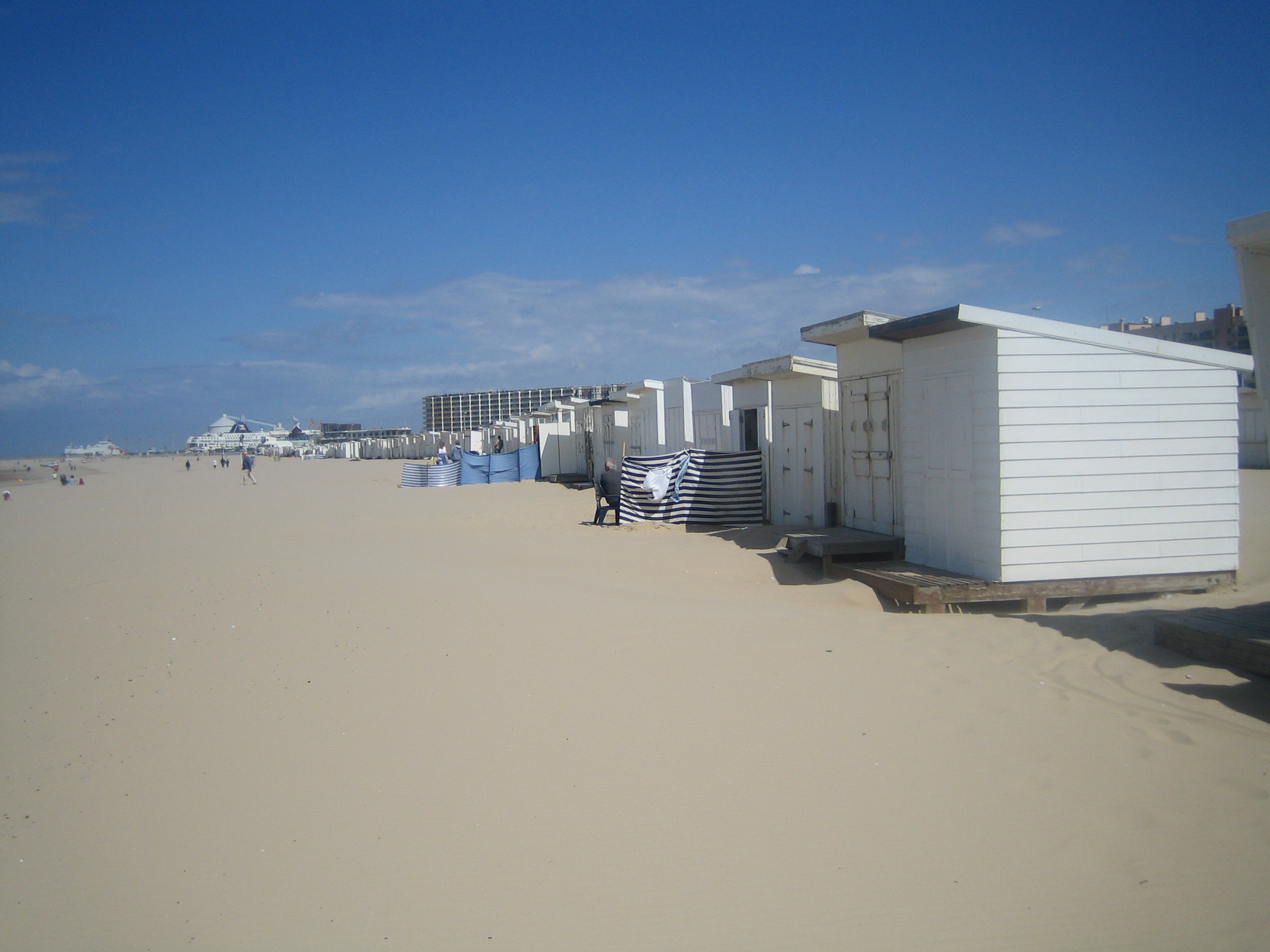 Beach huts in Calais.